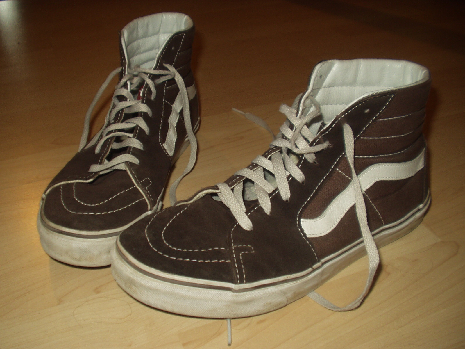 Classic Vans sport shoes